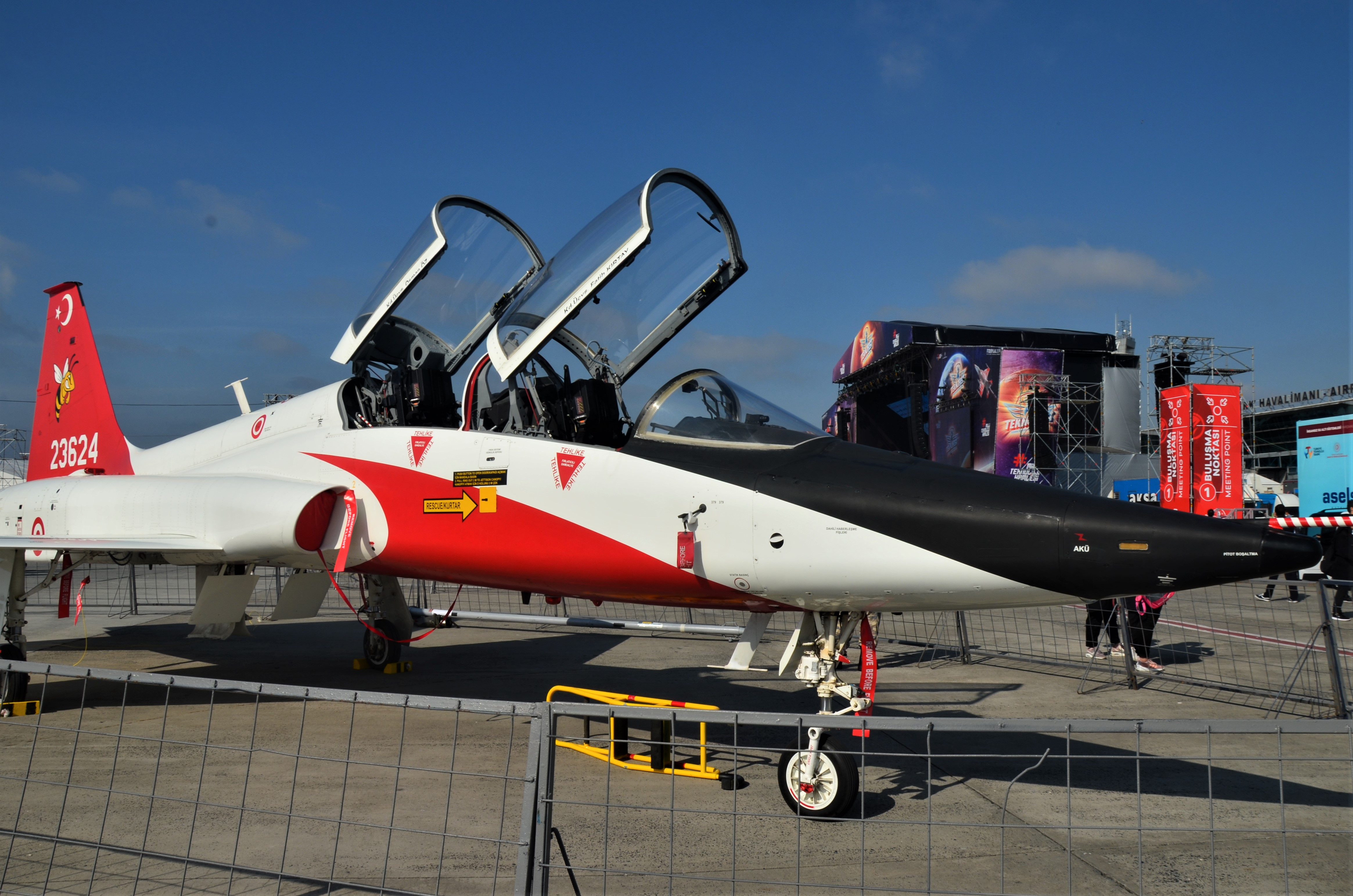 Northrop T-38 Talon trainer jet of the TurkishAirForce at Teknofest 2019